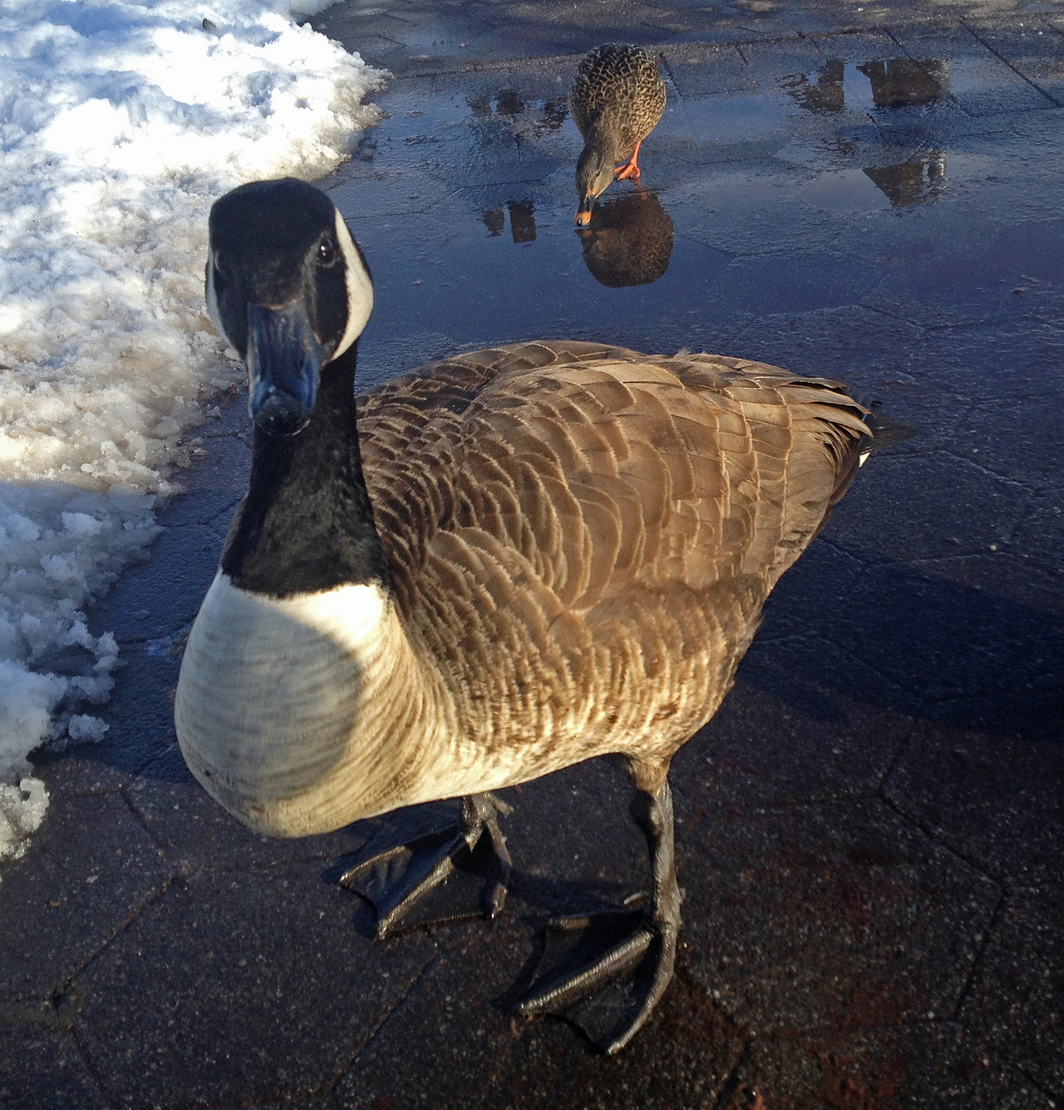 Canada goose (Branta canadensis) in Tarrytown, New York, February 2015. A female mallard trails in the background.